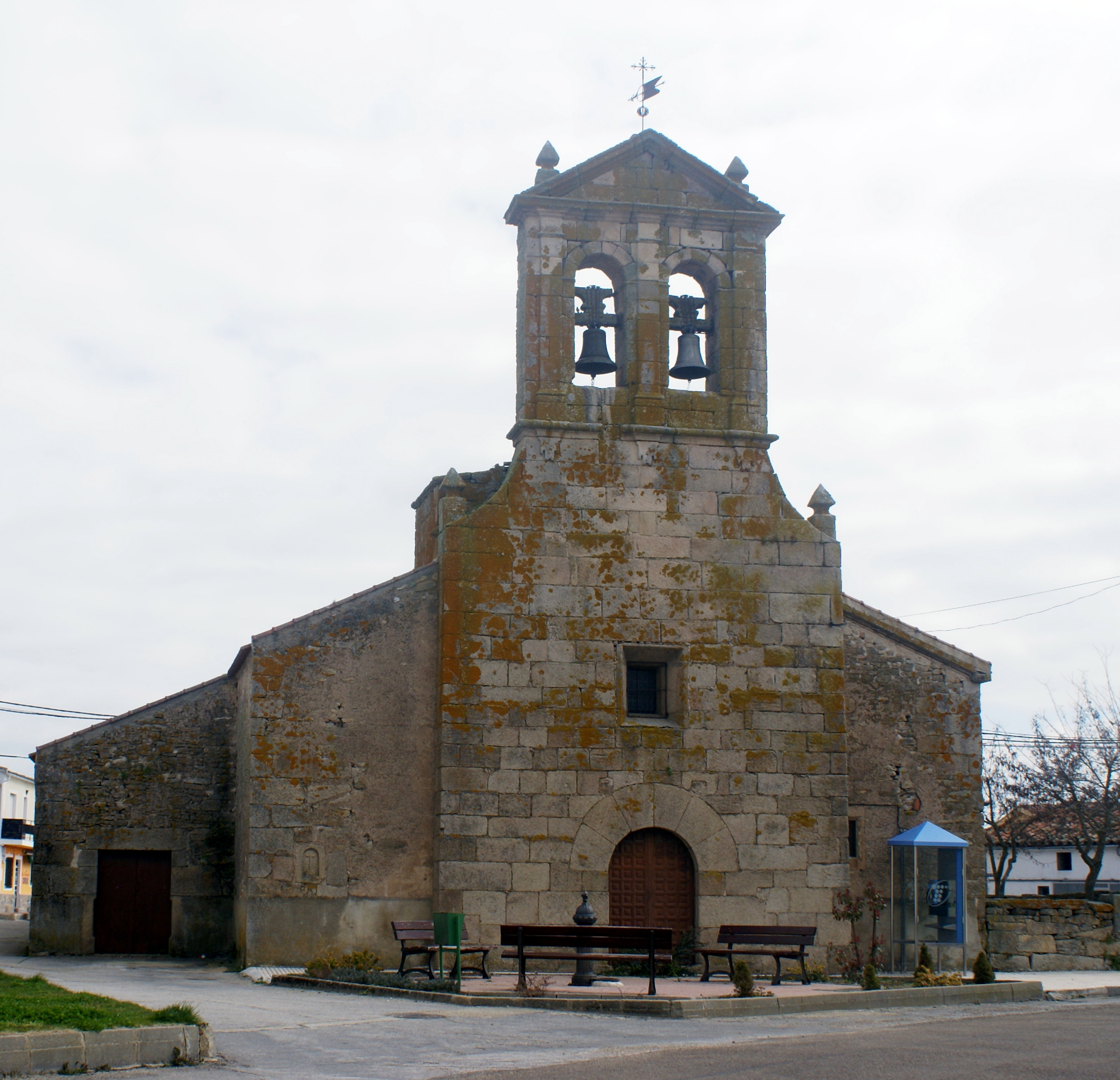 Church of Villar de Peralonso, Salamanca, Spain.